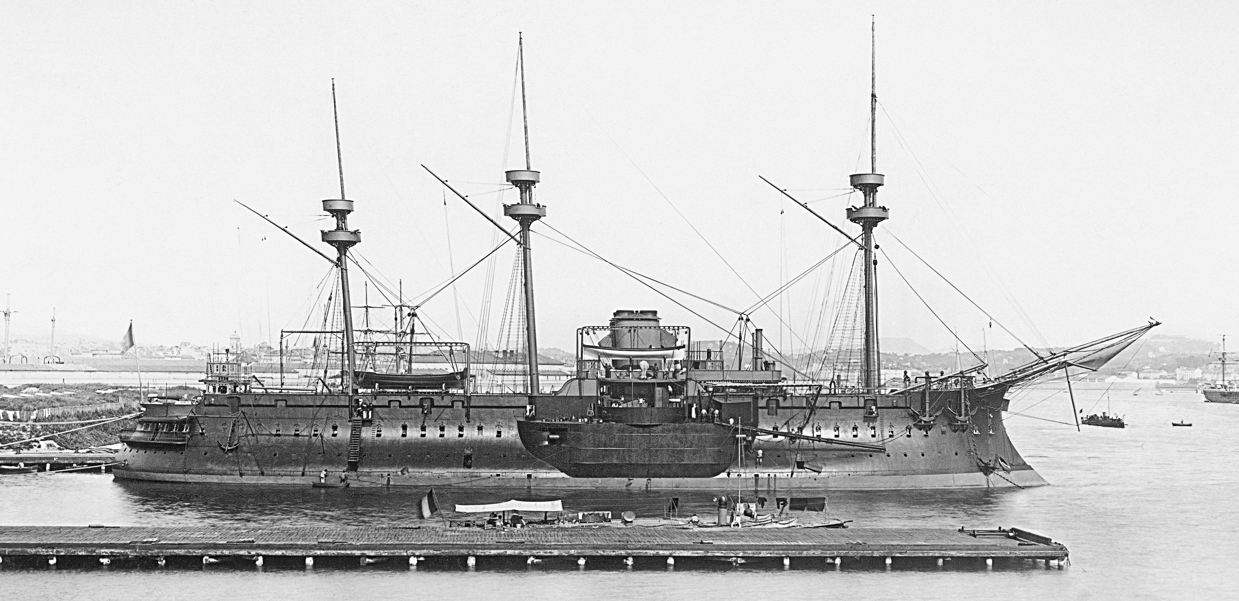 French ironclad Redoutable